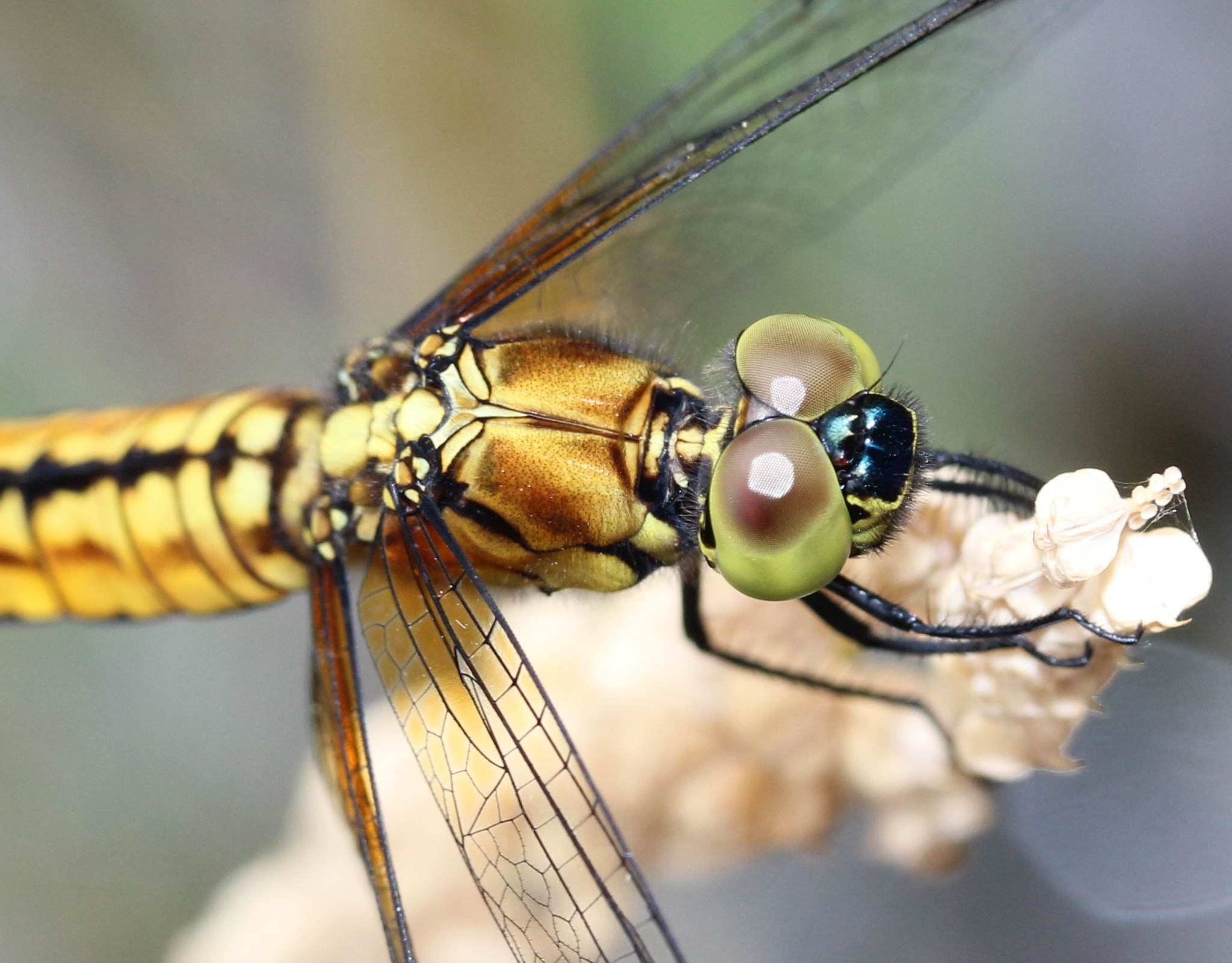 Head of Lyriothemis pachygastra, male in Japan.